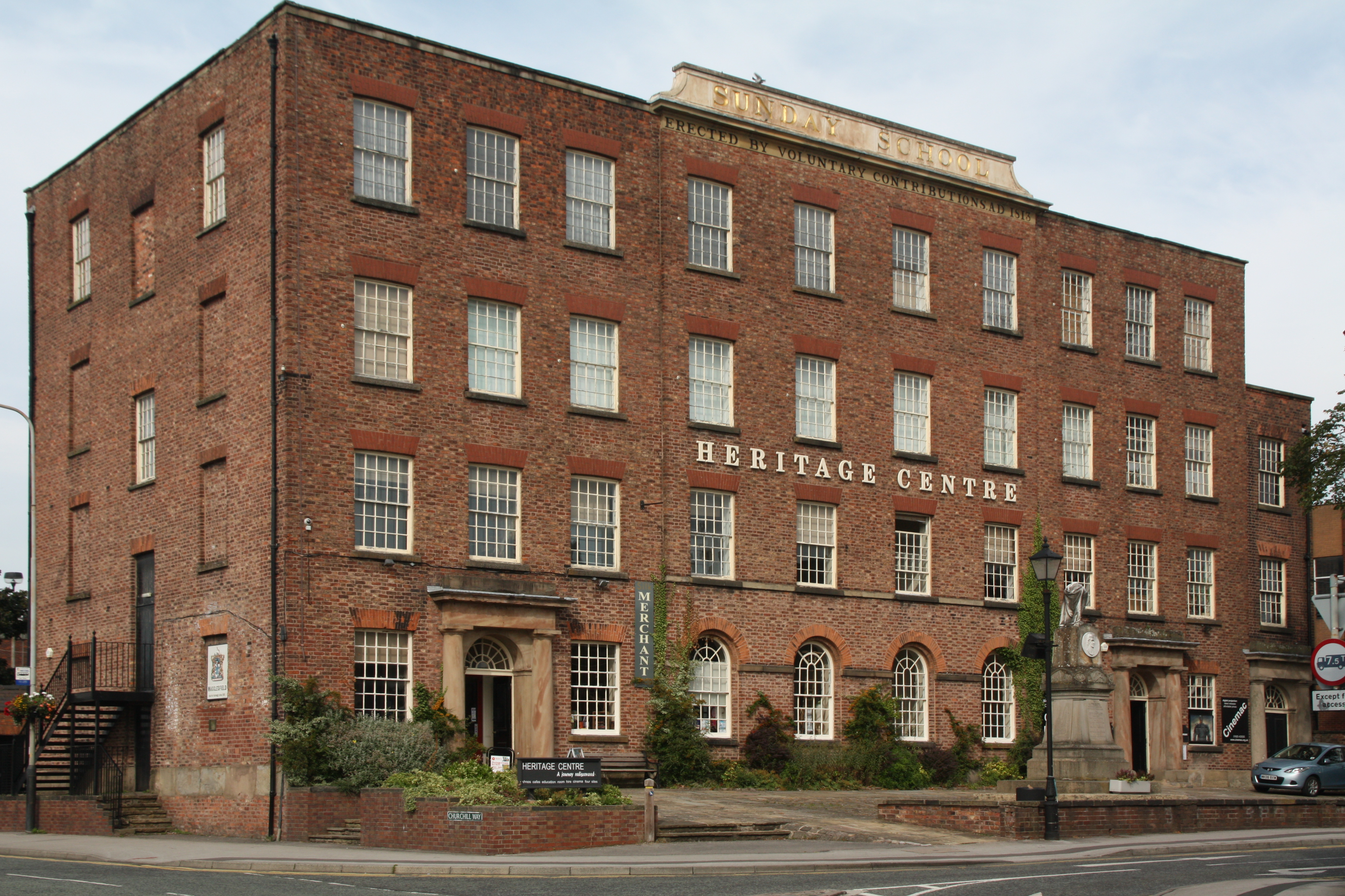 The façade of Macclesfield Sunday School (macclesfield Heritage Centre) Roe Street Sunday School